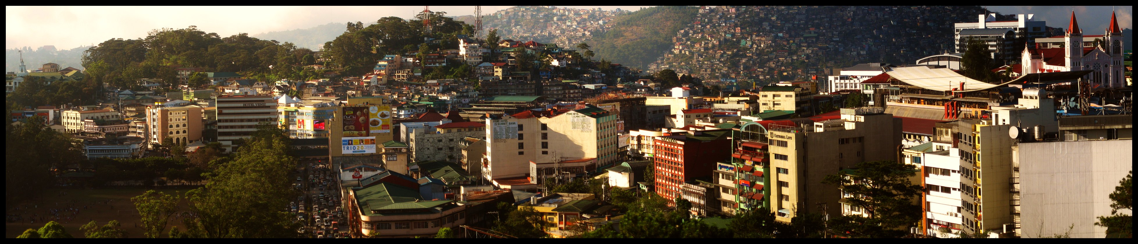 Panorama of Baguio City taken from SM City Baguio Mall. (January 2012)